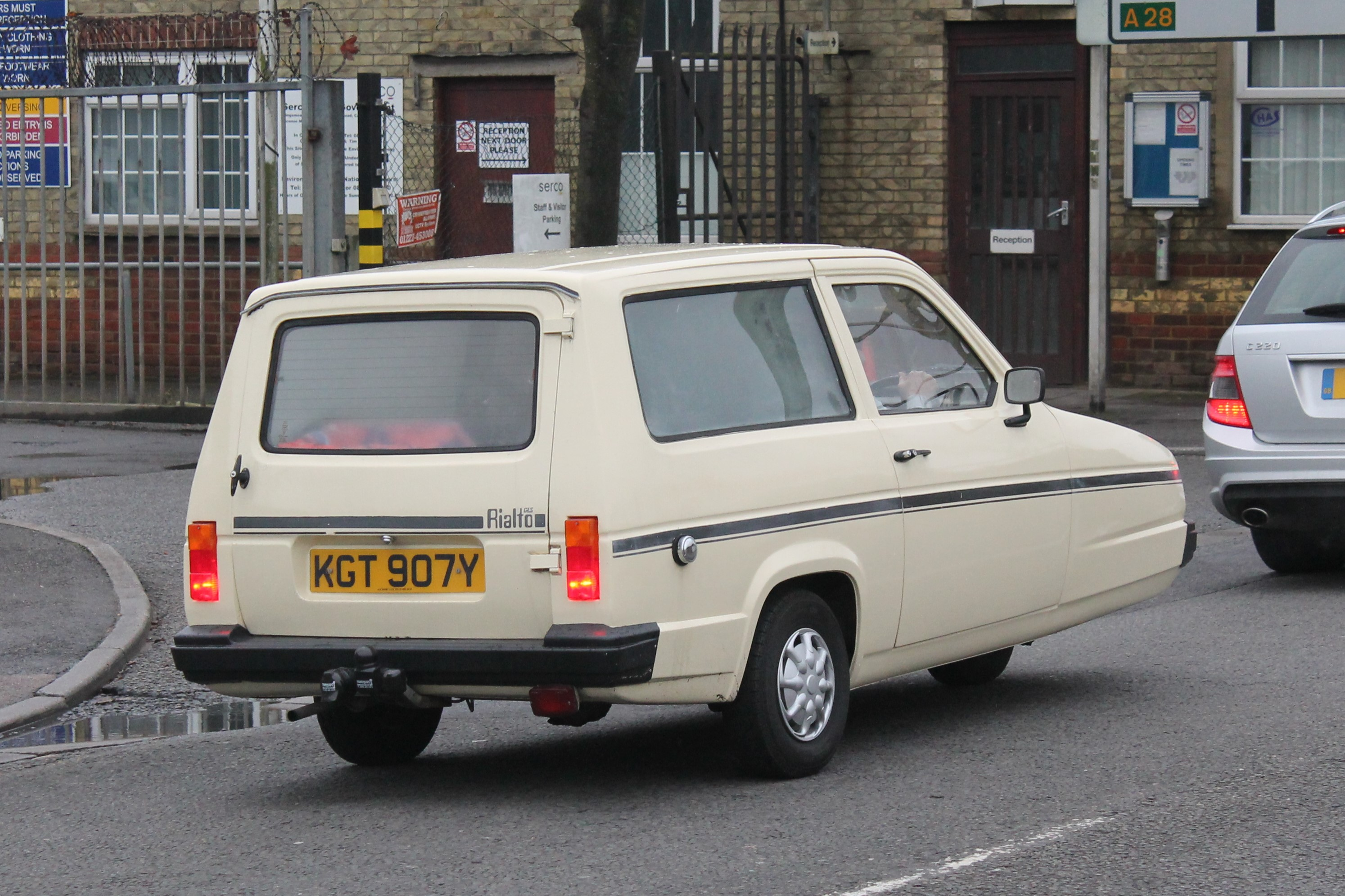 This is the oldest Rialto I've seen for some time, and in a lovely fetching beige colour too! I like the original graphics still in situ. Registration number: KGT 907Y ✔ Taxed Expires: 01 September 2015 ✔ MOT Expires: 20 August 2015